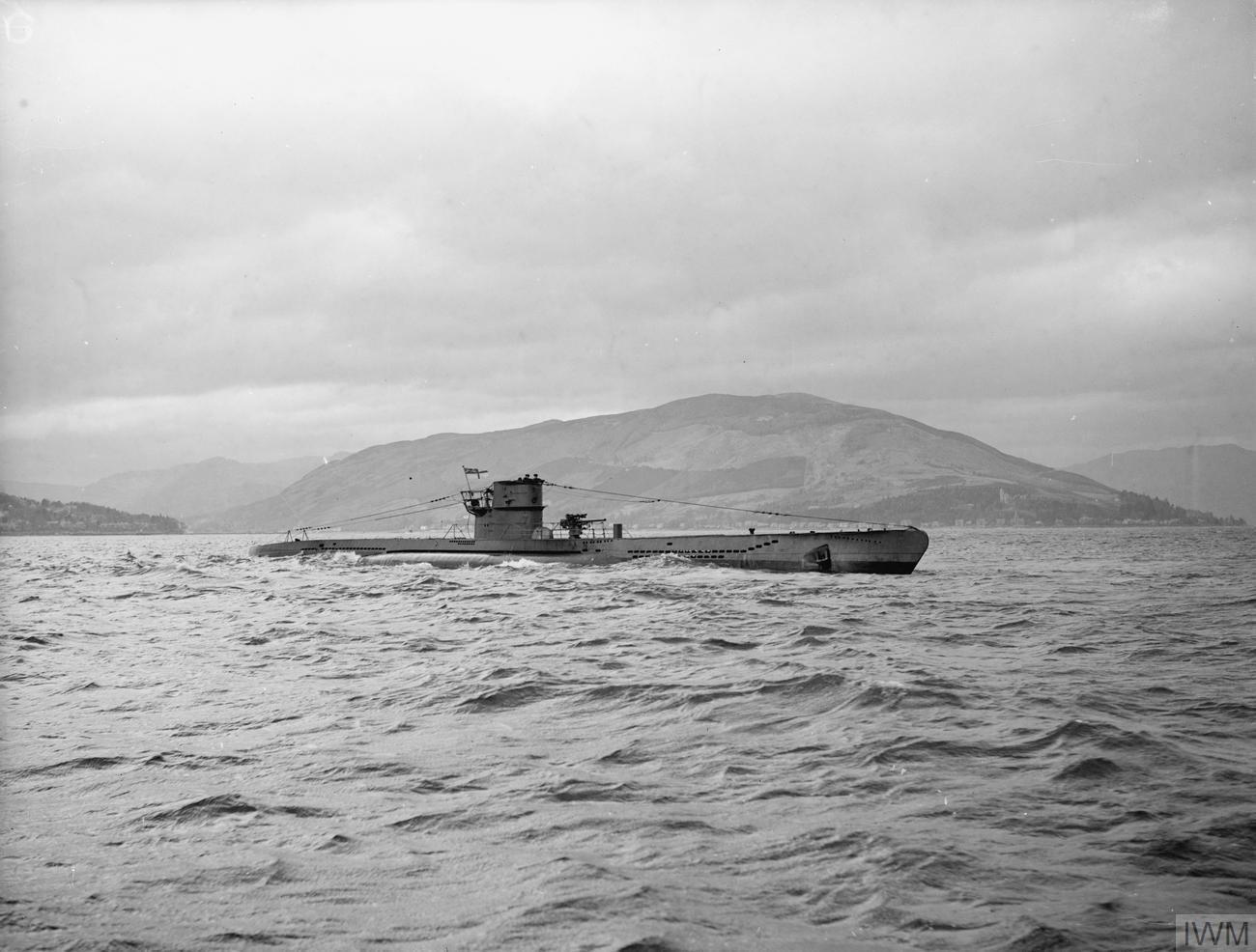 The Submarine Hm Graph - Ex-u-boat 570. 20 April 1943, Holy Loch, the German Submarine U 570 Which Was Captured and Renamed HMS Graph. in 1941 a Hudson Aircraft Forced the U-boat To Surrender on the Surface, Units of the Royal Navy Arrived on the Scene, and Took Charge of the Surrendered U-boat, Taking the Crew Prisoner. on Arrival in a British Port, the Submarine Was Closely Examined, and Photographs of Its Interior Were Taken. The GRAPH from the bow.